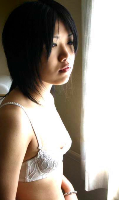 A japanese girl wears a white AA65 bra. She is professional model Kanade, 19 years old.